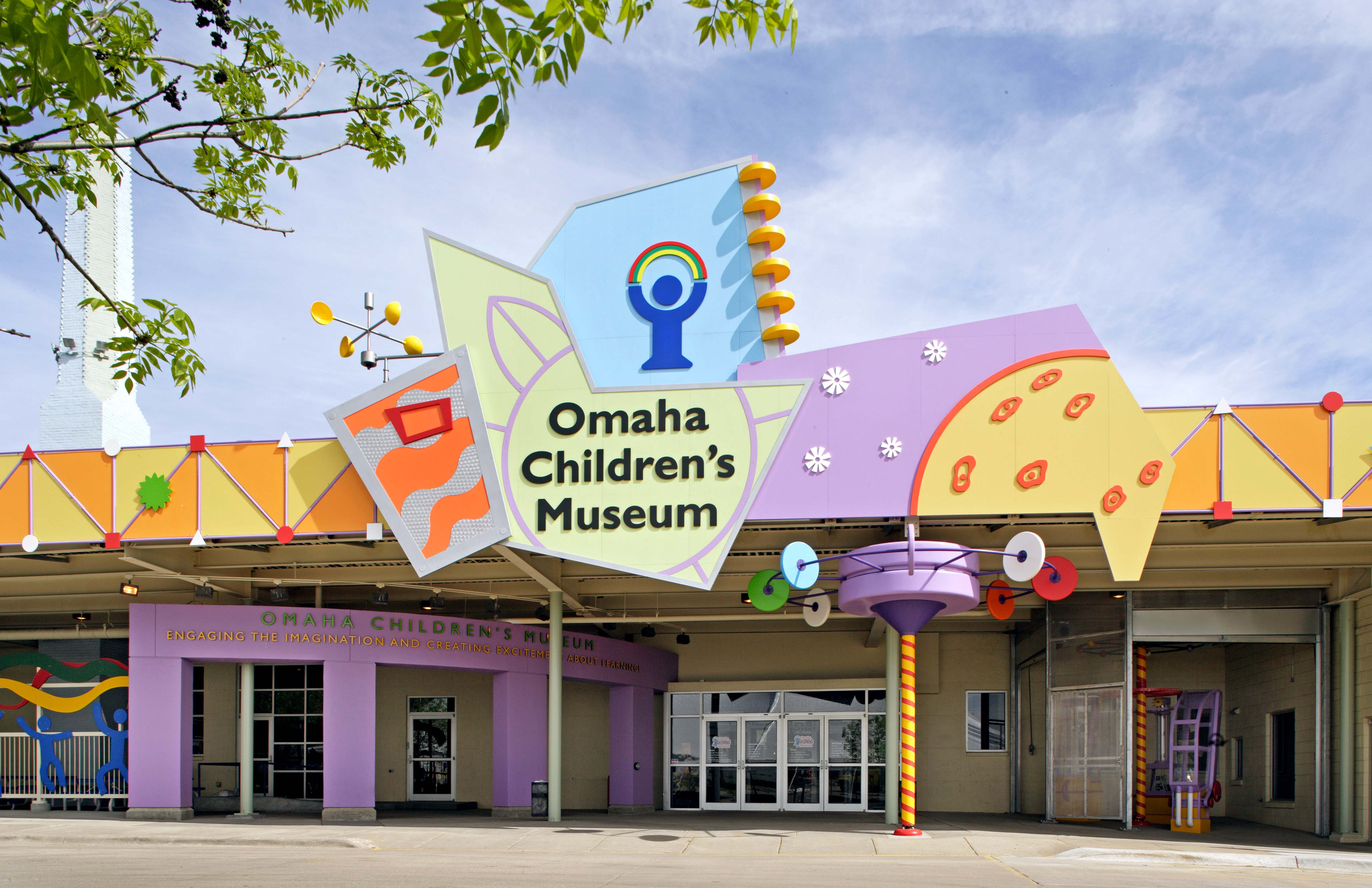 Omaha Children's Museum Entrance